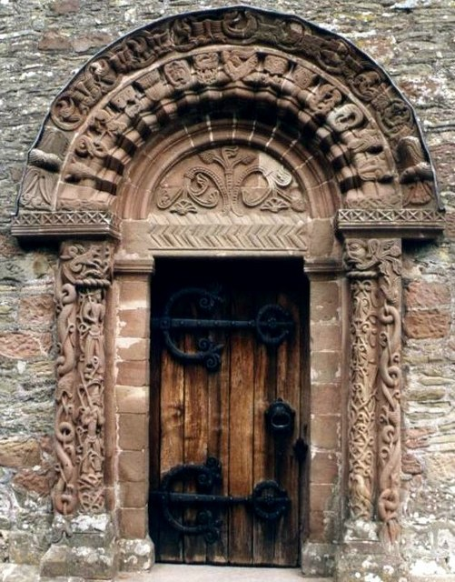 Norman doorway at St Mary and St David parish church, Kilpeck, Herefordshire